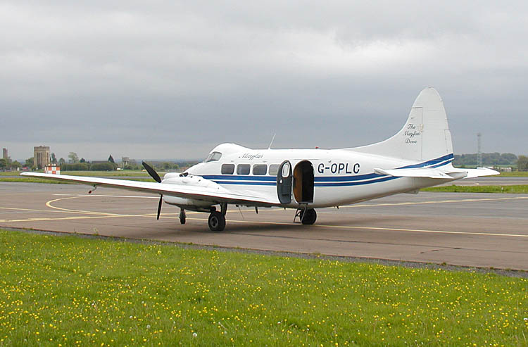 de Havilland Dove at the Great Vintage Fly-in Weekend, Kemble, England, May 2003.